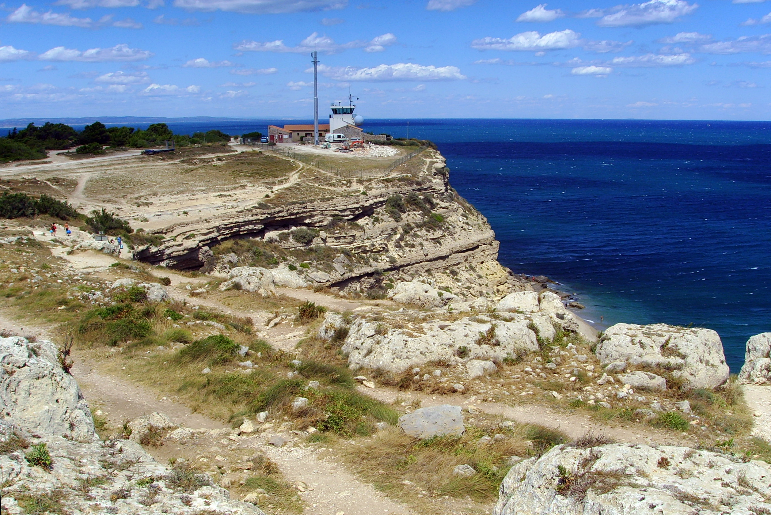 Leucate, Aude, France: The Rocks of Cap Leucate / french naval radar station photographer: Gerbil, summer 2006